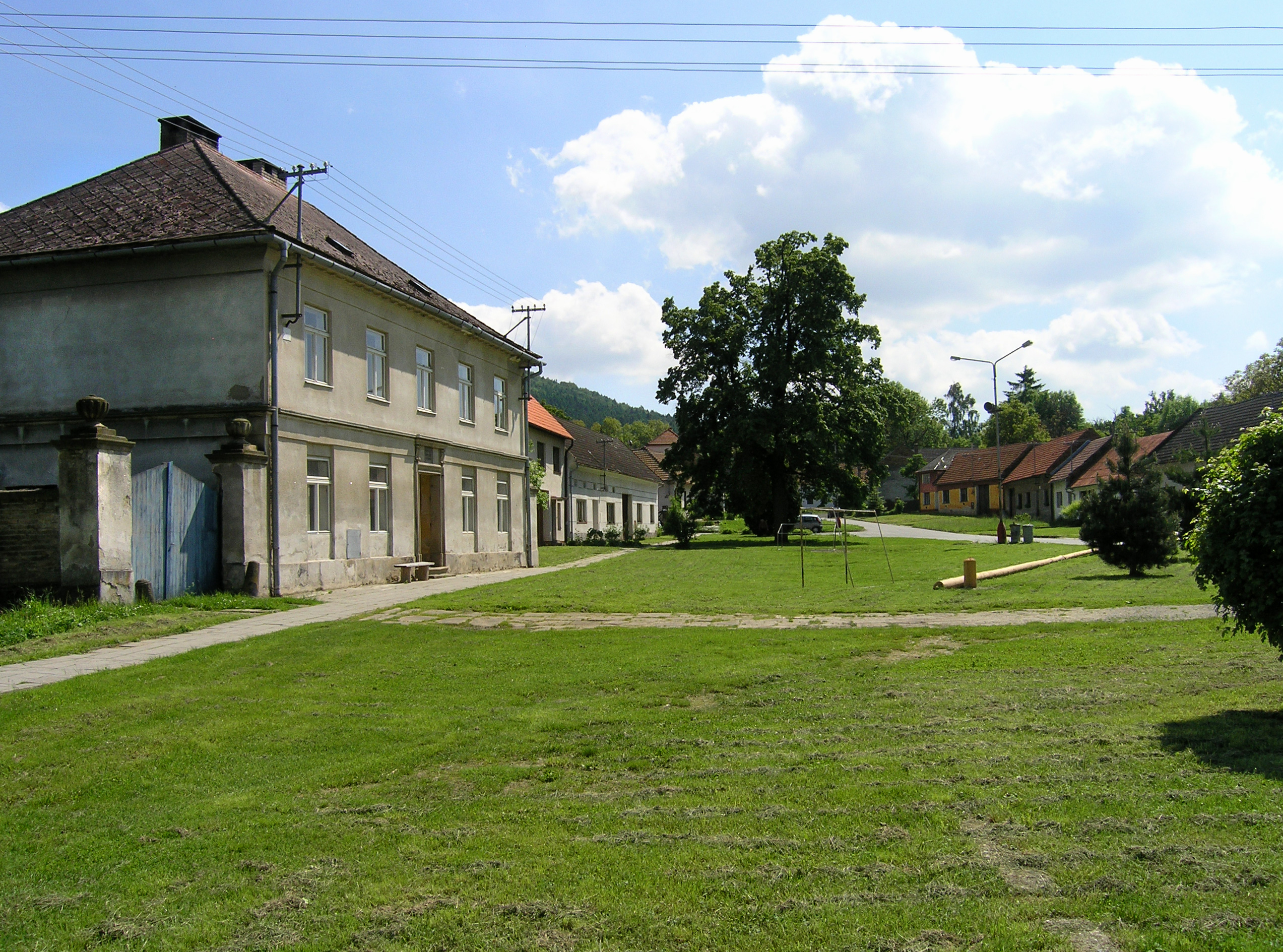 Common in Cetechovice village, Czech Republic